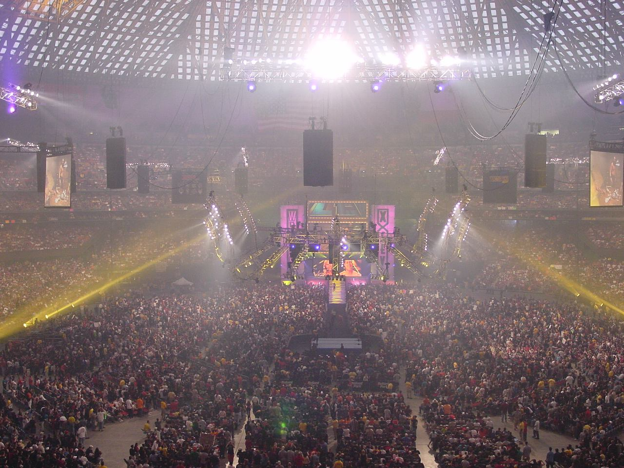 A free image of the attendance record setting 67,925 fans at the Reliant Astrodome and Stage Setup for WrestleMania X-Seven.